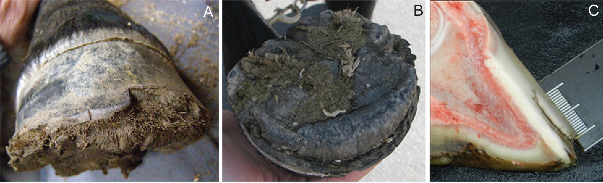 Hoof from a Connemara pony foal affected with hoof wall separation disease (HWSD). (A) Note the dorsal hoof wall separation at the sole and (B) proliferative horn on the solar aspect of the hoof. (C) A sagittal section of a post-mortem HWSD-affected hoof demonstrates that the dorsal hoof wall fissure occurs outside of the white line.